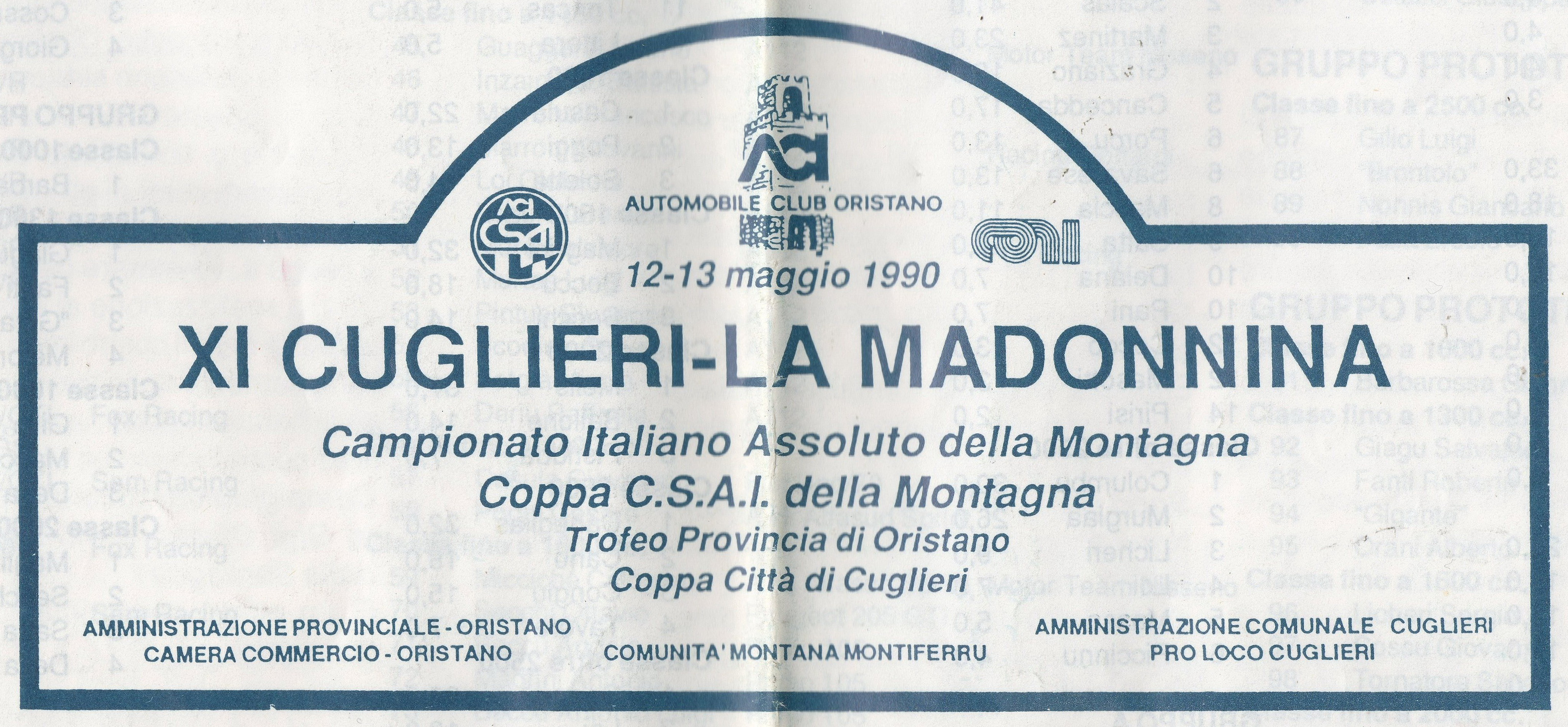 Logo of the 1990 "Cuglieri-La Madonnina" hillclimbing race. In that year the race had part of the Italian Hillclimb Champioship (Campionato Italiano Velocità Montagna)